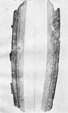 Grotte du Trilobite, Arcy-sur-Cure, Yonne, Burgundy, France. Taken from Abbé Alexandre Parat, Les Grottes de la Cure (côte d'Arcy) : La grotte du Trilobite (between pp. 32-33) : plate 5. Engraved bone, drawing showing both length sides.